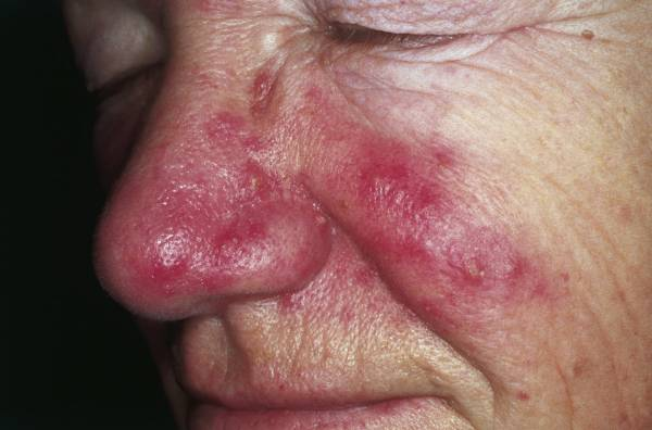 Rosacea. Erythema and telangiectasia are seen over the cheeks, nasolabial area and nose. Inflammatory papules and pustules can be observed over the nose. The absence of comedos is a helpful tool to distinguish rosacea from acne.